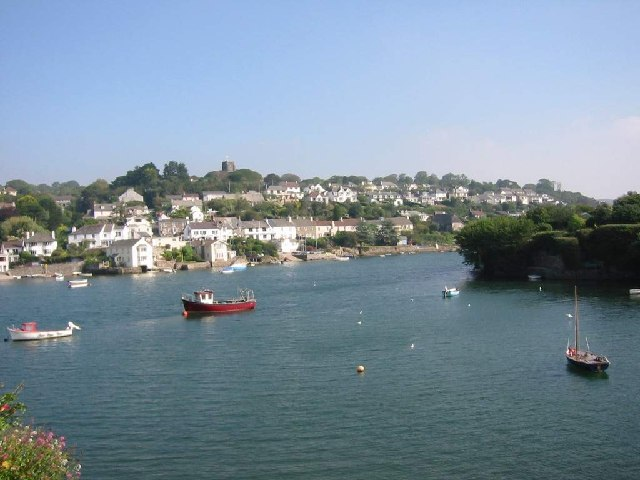 Northern side of Newton Creek from Noss Mayo. Looking towards Holy Cross church, Newton Ferrers. Taken from Passage Road, Noss Mayo